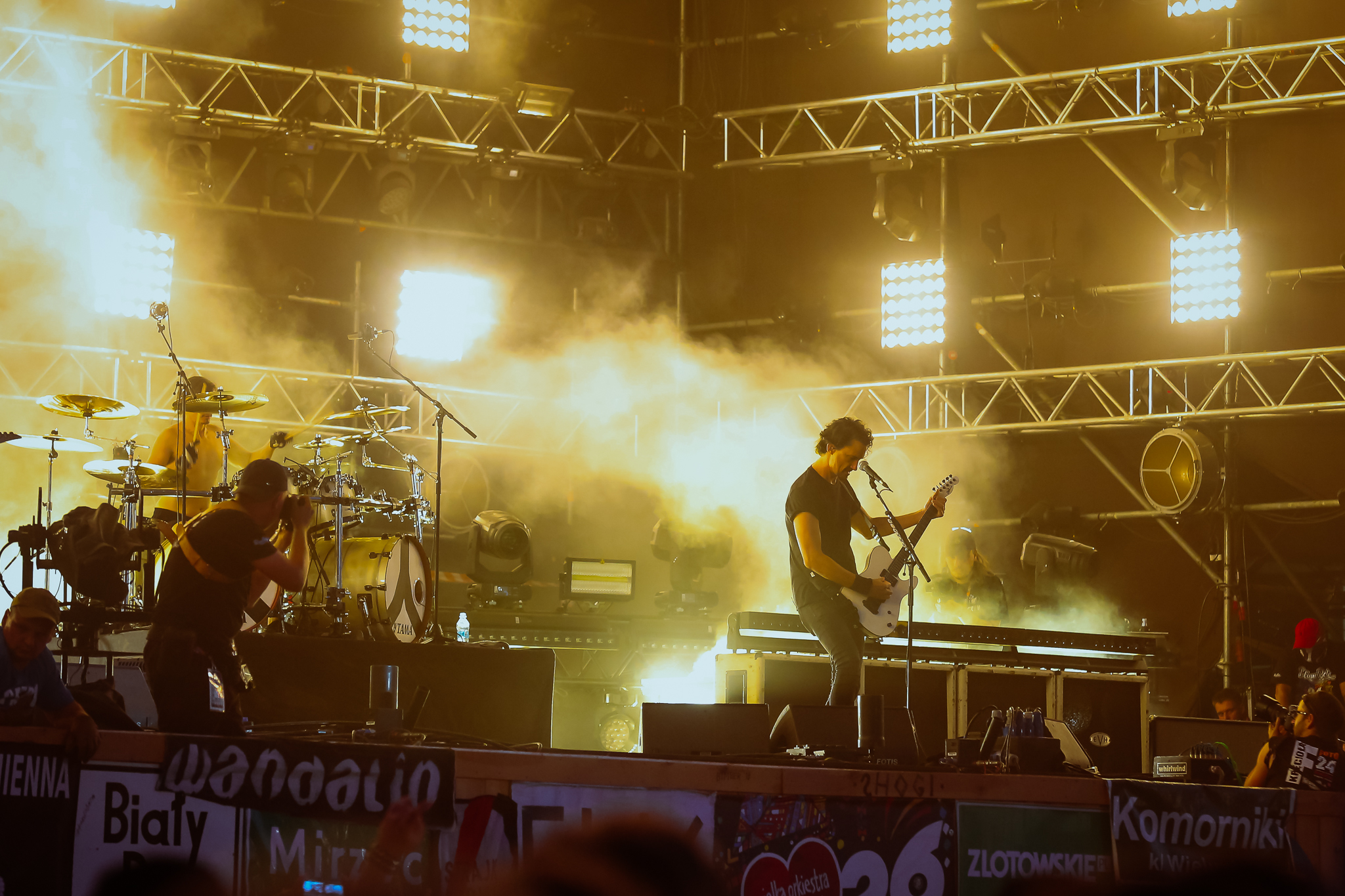 Gojira at Pol’and’Rock Festival 2018